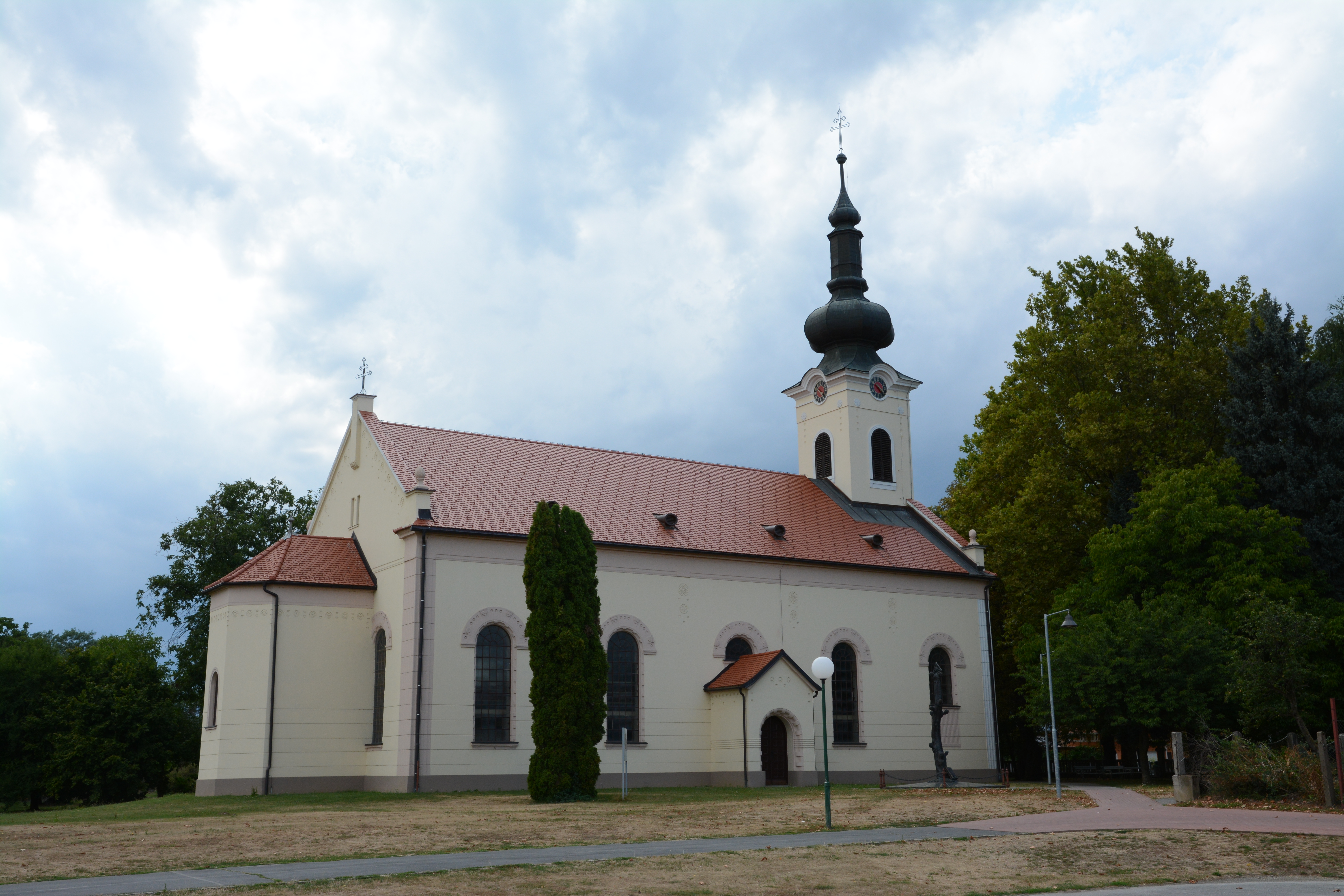 Church Puconci